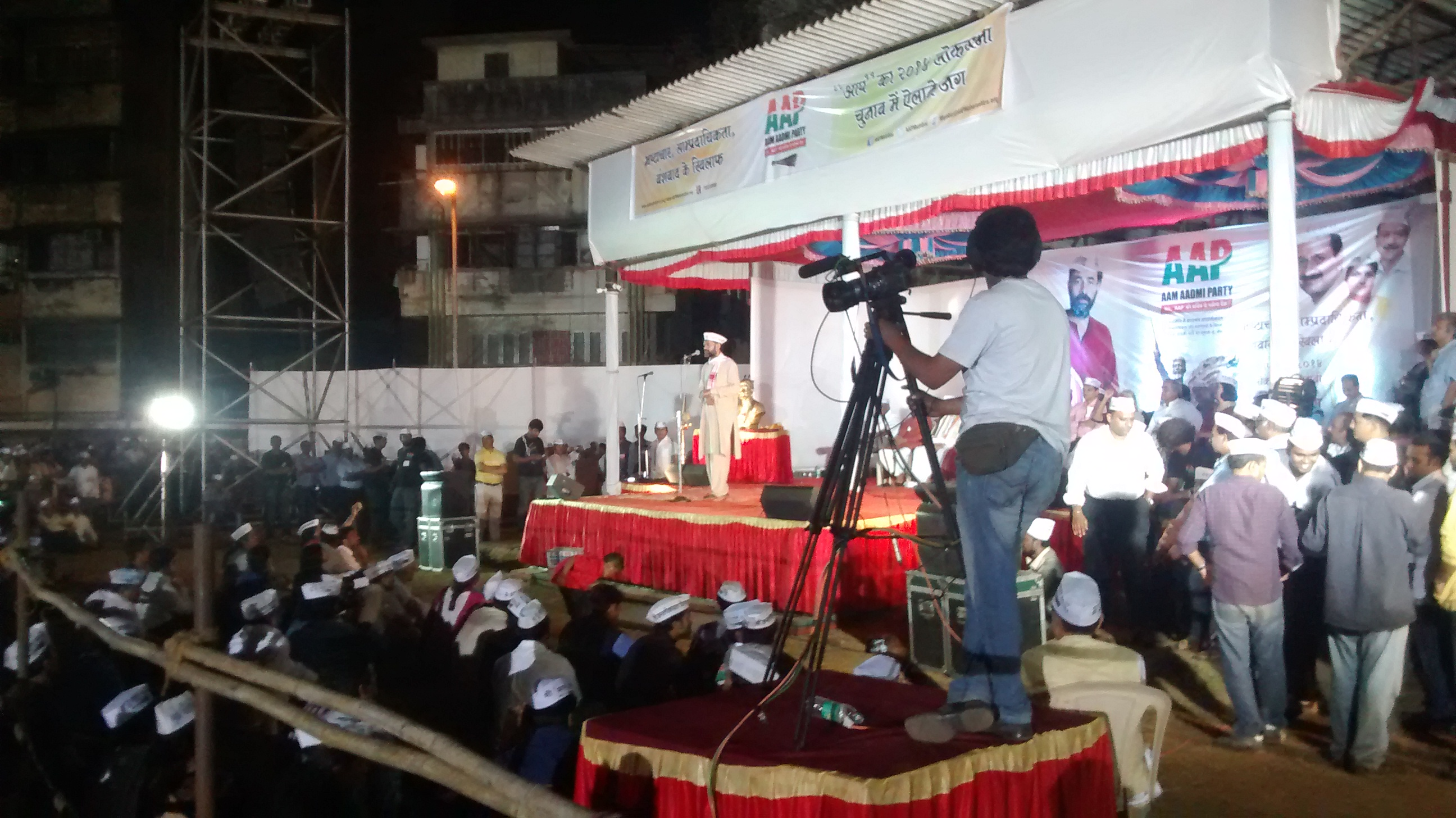 Yogendra Yadav addressing a rally at Sant Ramdas Park, Bhardawadi, opposite Navrang Cinema,Andheri,Mumbai